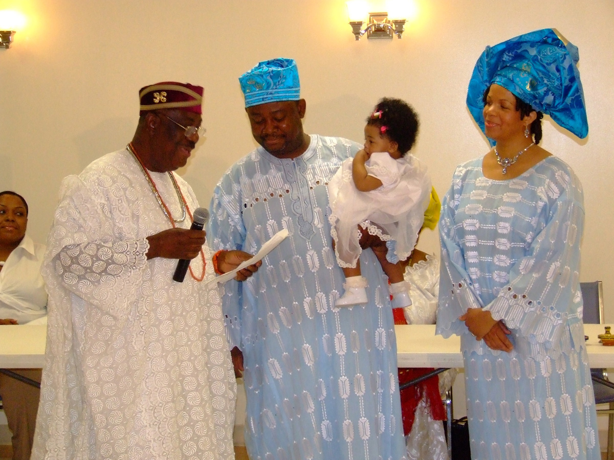 An Igbuzo child naming ceremony in Washington DC, USA. Parents of the child confer with the Diokpa (Head of he family) on the names of the child